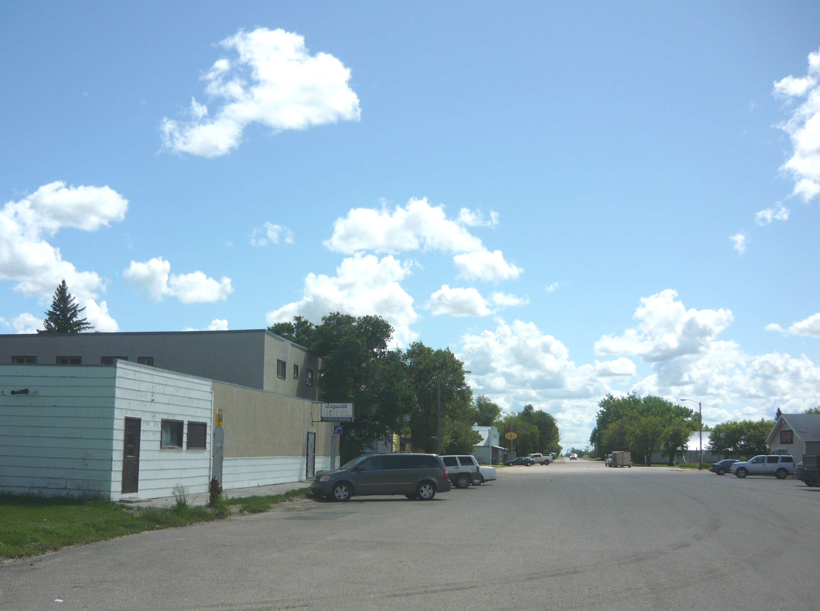 Main Street in Asquith, Saskatchewan, Canada. Looking southward from the railroad tracks. Asquith Hotel is the two-story building on the left.